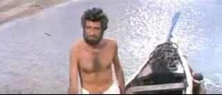 Screenshot from the trailer of the film King of Kings.